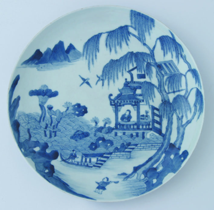 Revival Lê dynasty ceramics at the Government Palace.